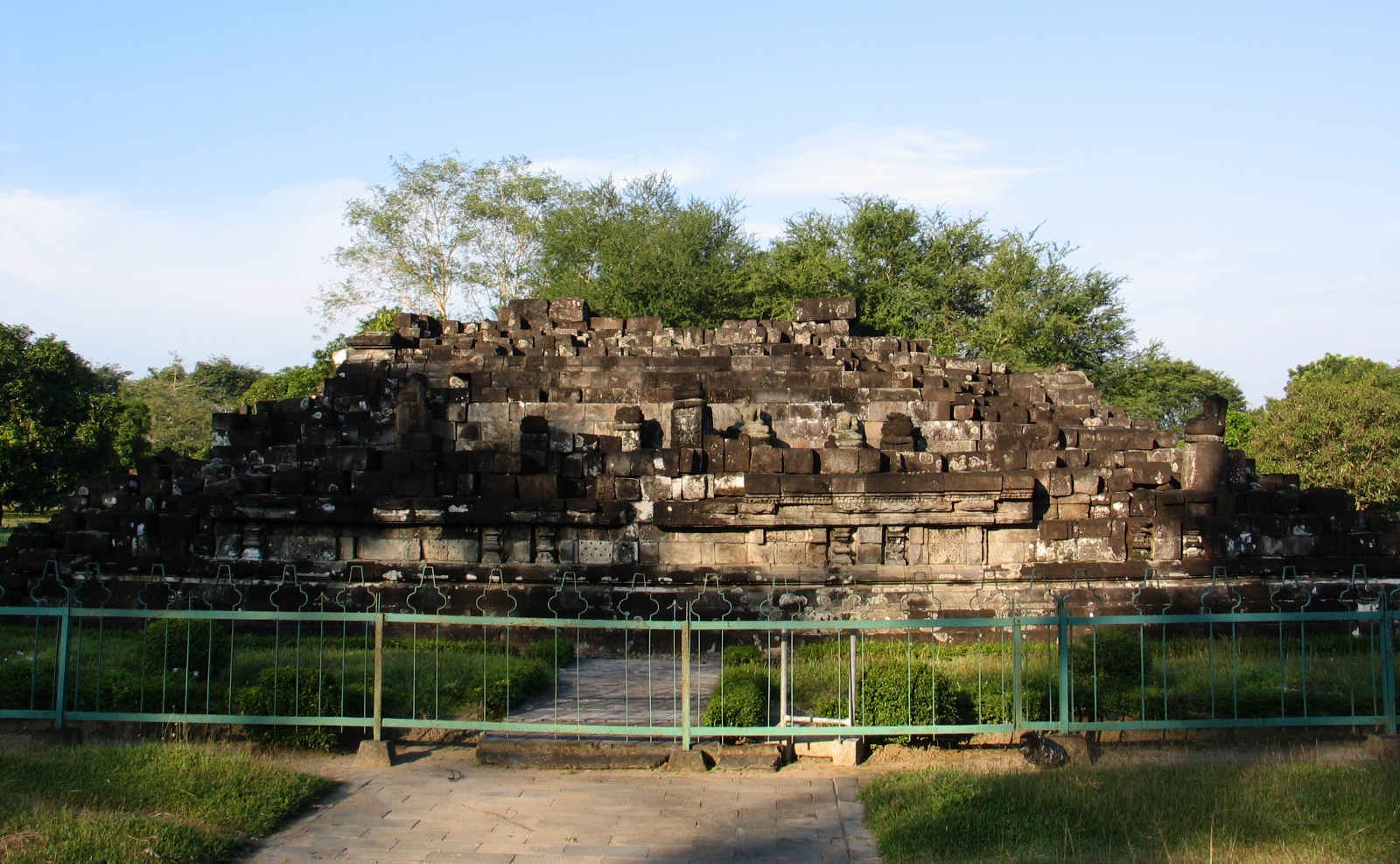 The ruin of 9th century Candi Bubrah Javanese Buddhist temple in 2006, prior of reconstruction. Located in Prambanan Archaeological Park, Central Java, Indonesia.